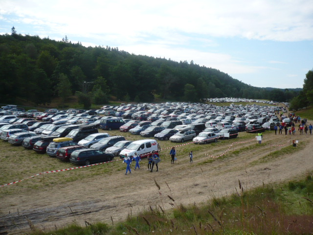 Parking of 2° stage (Simlångsdalen) of O-Ringen 2012 in Halland.